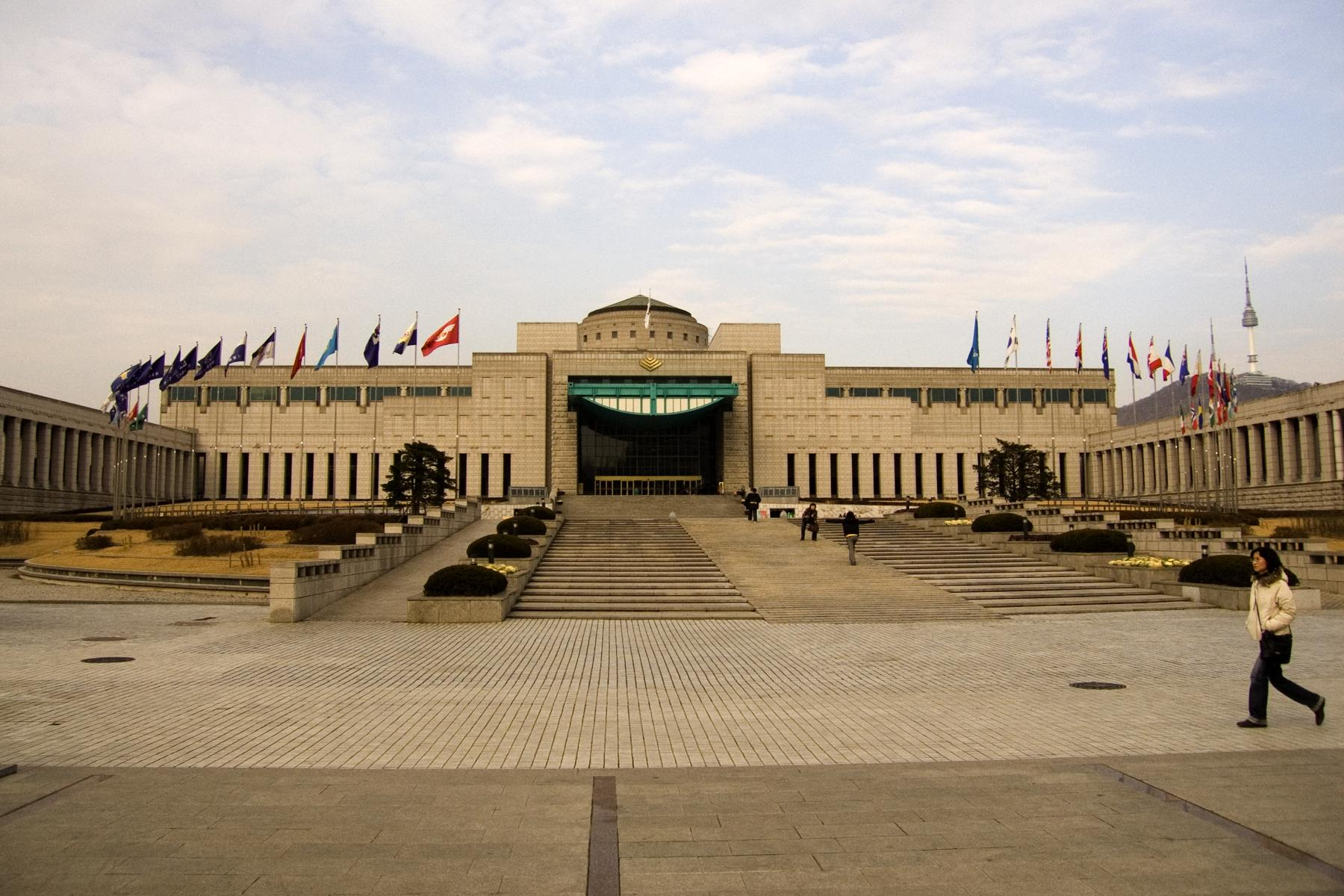 Korean War Memorial in Seoul, South Korea.